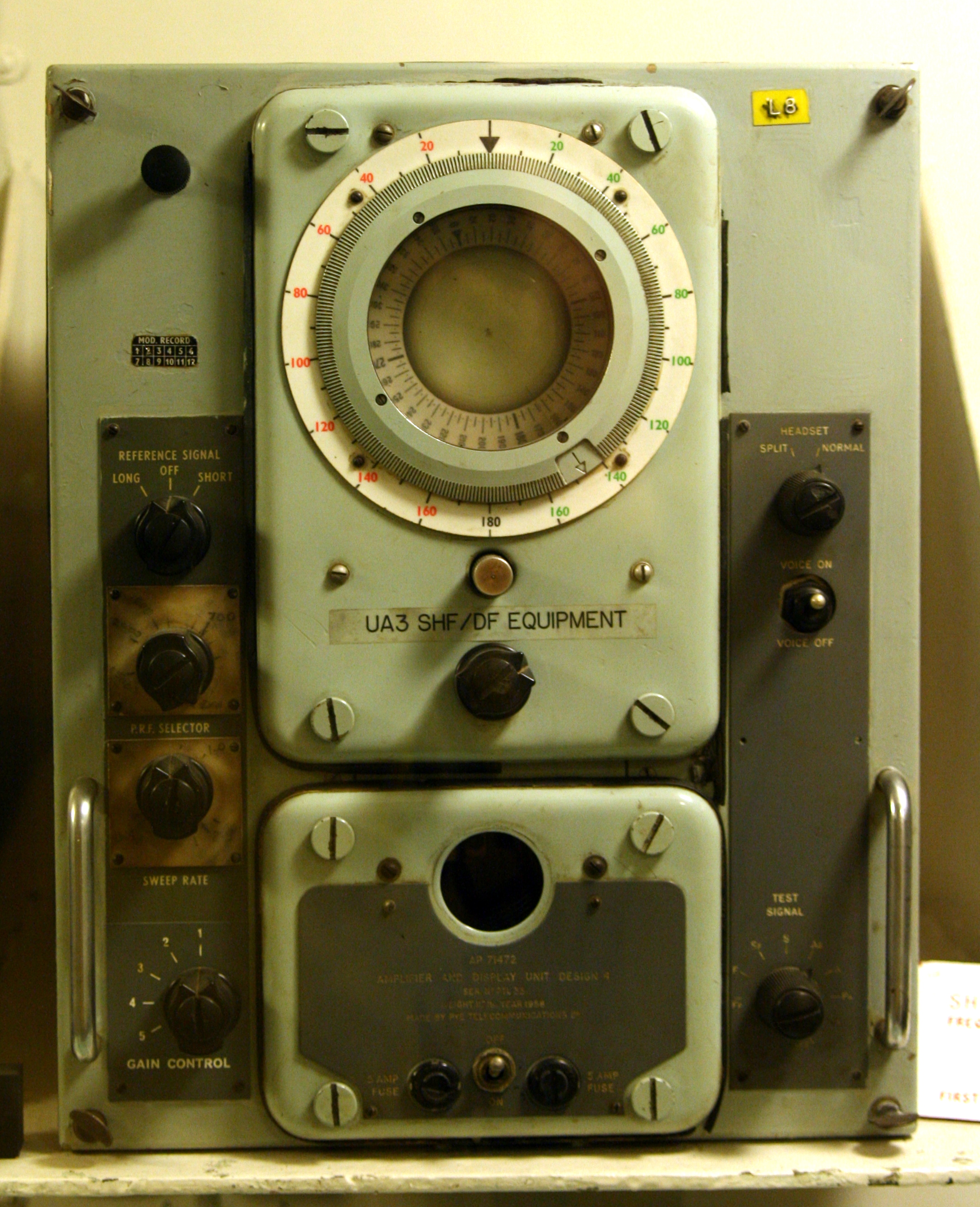 "SuperDuff" on HMS Belfast, ie a super-high frequency direction-finding receiver.